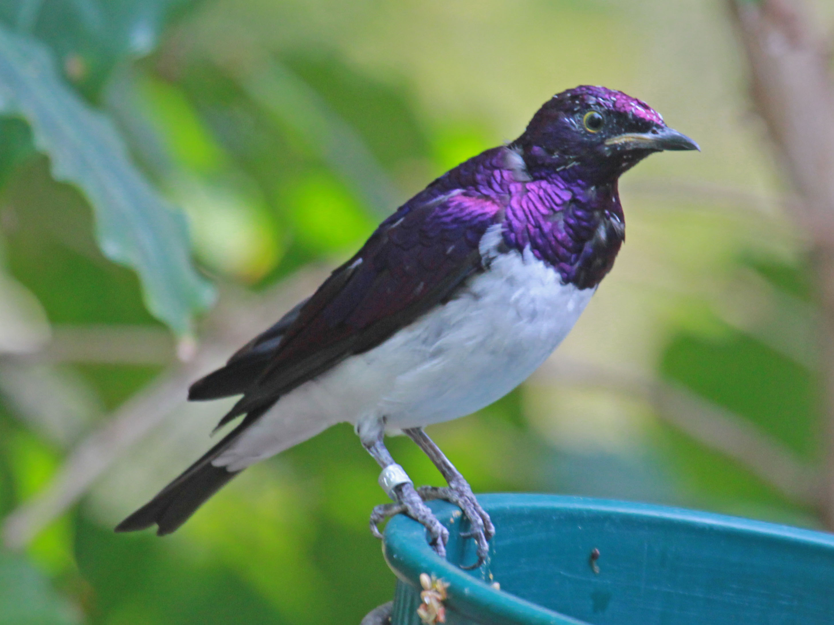 Amethyst Starling ♂, also known as Violet-backed Starling, (Cinnyricinclus leucogaster) at the North Carolina Zoo in Ashboro, North Carolina